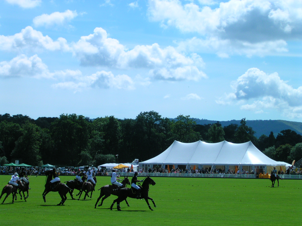 Polo at Cowdray Park, Easebourne, West Sussex, England.